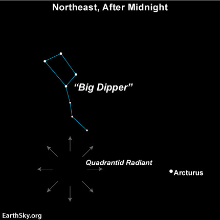 The radiant point of the Quadrantid meteor shower is near the Big Dipper asterism and the bright star Arcturus in the constellation Bootes. At the time of the Quadrantids peak each year (early January), you will find this radiant in the northeast shortly after midnight. The radiant for this shower was once considered to be in the constellation Quadrans Muralis (the Mural Quadrant), but this constellation is now obsolete. It is not one of the 88 official constellations designated by the International Astronomical Union in 1922 and adopted in 1930.